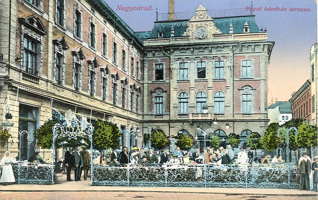 Postcard, undated ( ca.1914 ). Title: "Nagyvárad - Terrace of the restaurant Royal".